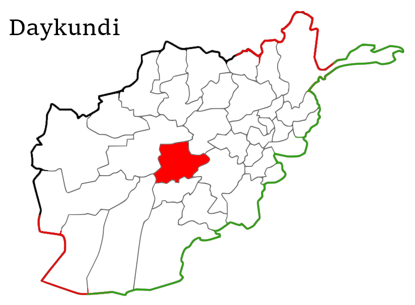 Daykundi Province